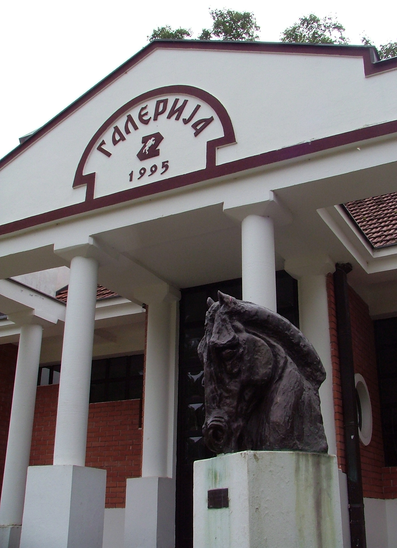 детаљ објекта у Зобнатици